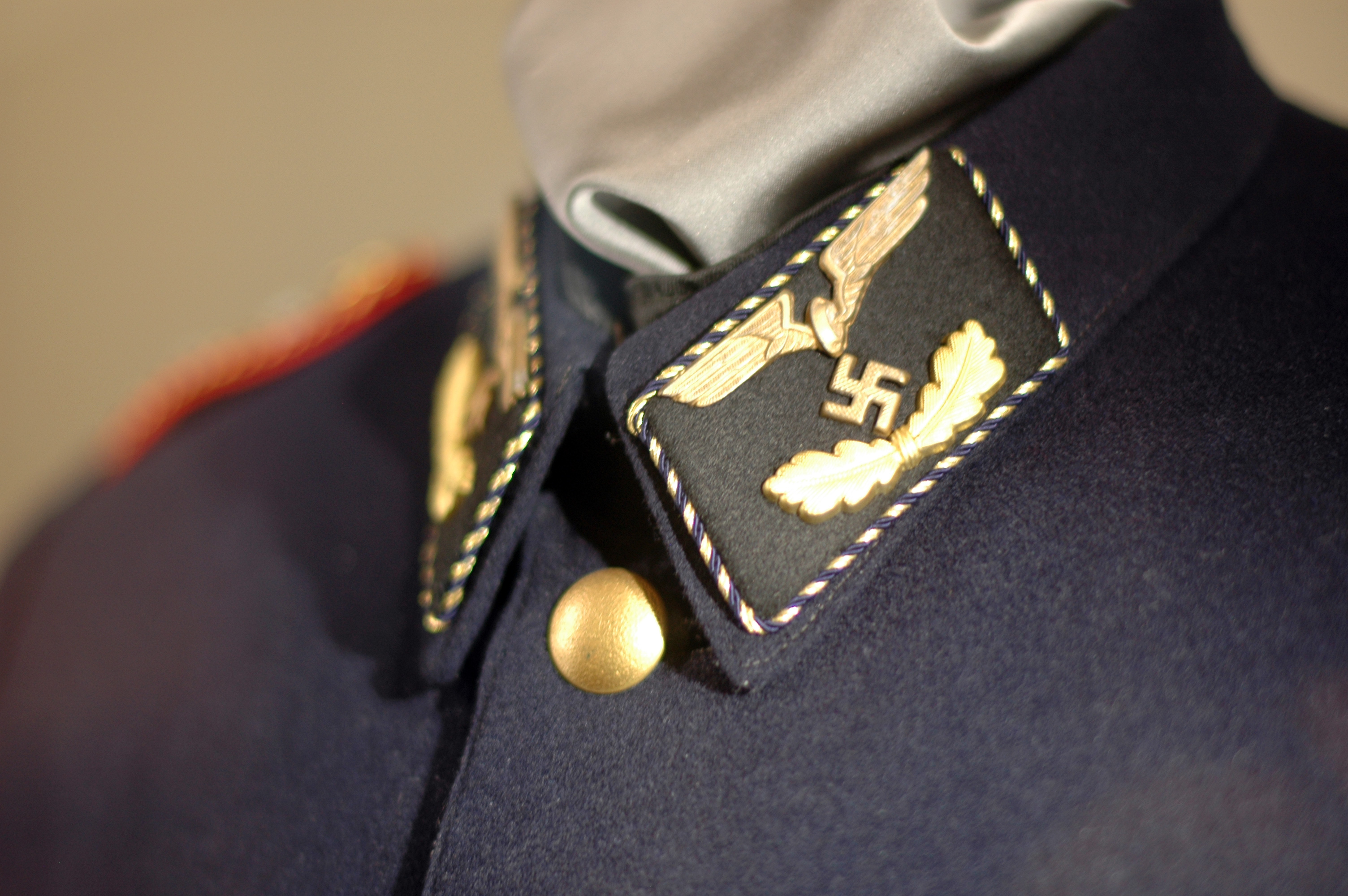 Verkehrsmuseum Nürnberg Legal disclaimer This image shows (or resembles) a symbol that was used by the National Socialist (NSDAP/Nazi) government of Germany or an organization closely associated to it, or another party which has been banned by the Federal Constitutional Court of Germany. The use of insignia of organizations that have been banned in Germany (like the Nazi swastika or the arrow cross) are also illegal in Austria, Hungary, Poland, Czech Republic, France, Brazil, Israel, Ukraine, Russia and other countries, depending on context. In Germany, the applicable law is paragraph 86a of the criminal code (StGB), in Poland – Art. 256 of the criminal code (Dz.U. 1997 nr 88 poz. 553).